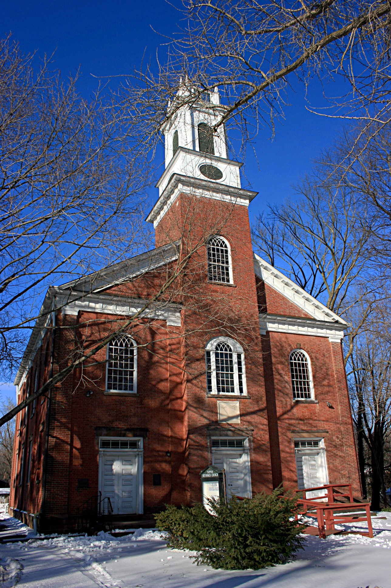 Photograph of the Reformed Church of Tappan in Tappan, New York, USA